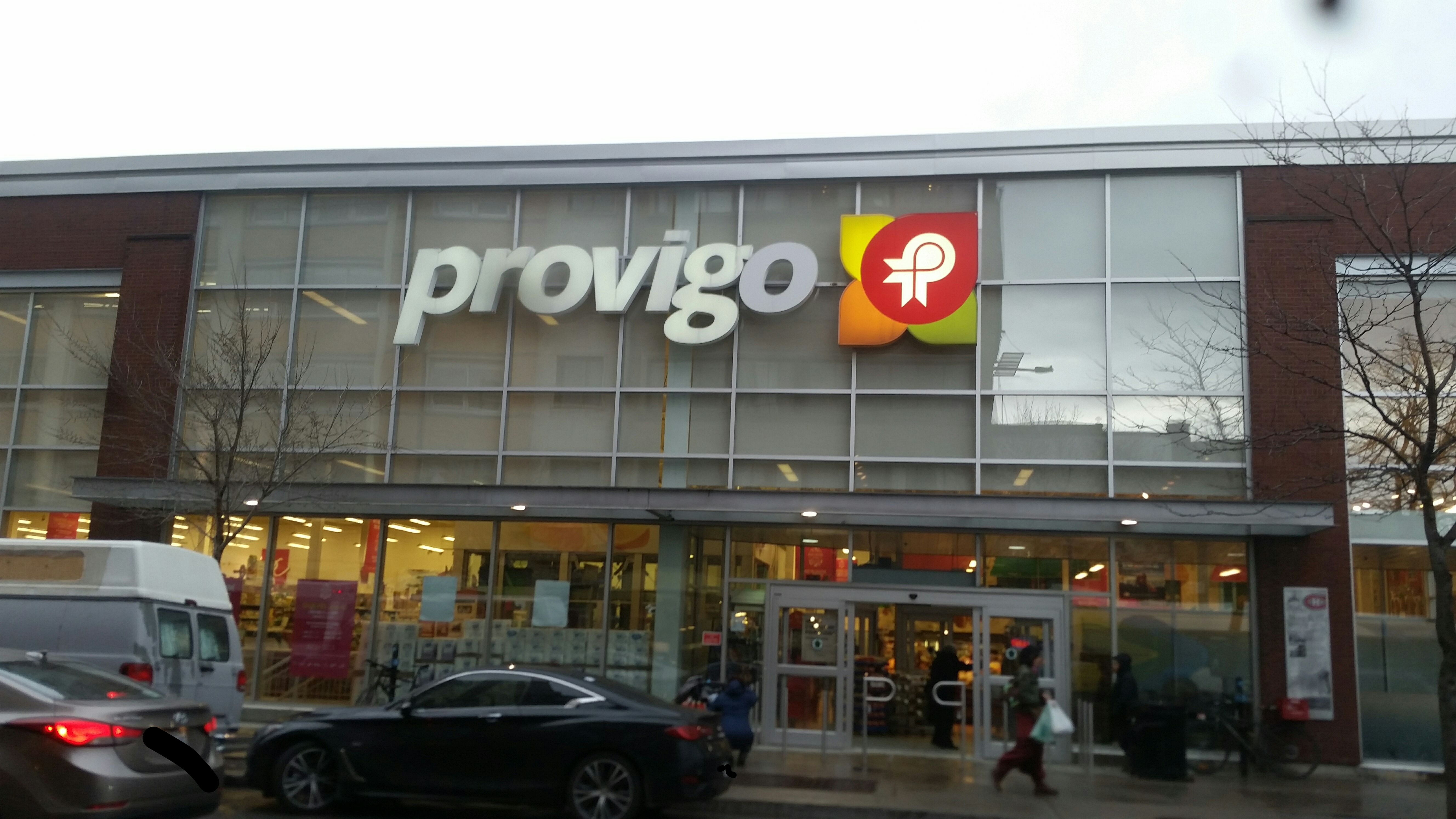 Provigo store with old 2000s logo on Mount Royal Ave. corner St. Urbain with a 2017 Infiniti Q60 photographed in Montréal, Québec, Canada. The old Provigo sign is still intact there as of November 2019 despite many Provigo storefronts changing logos and phasing out the 2000s logo.